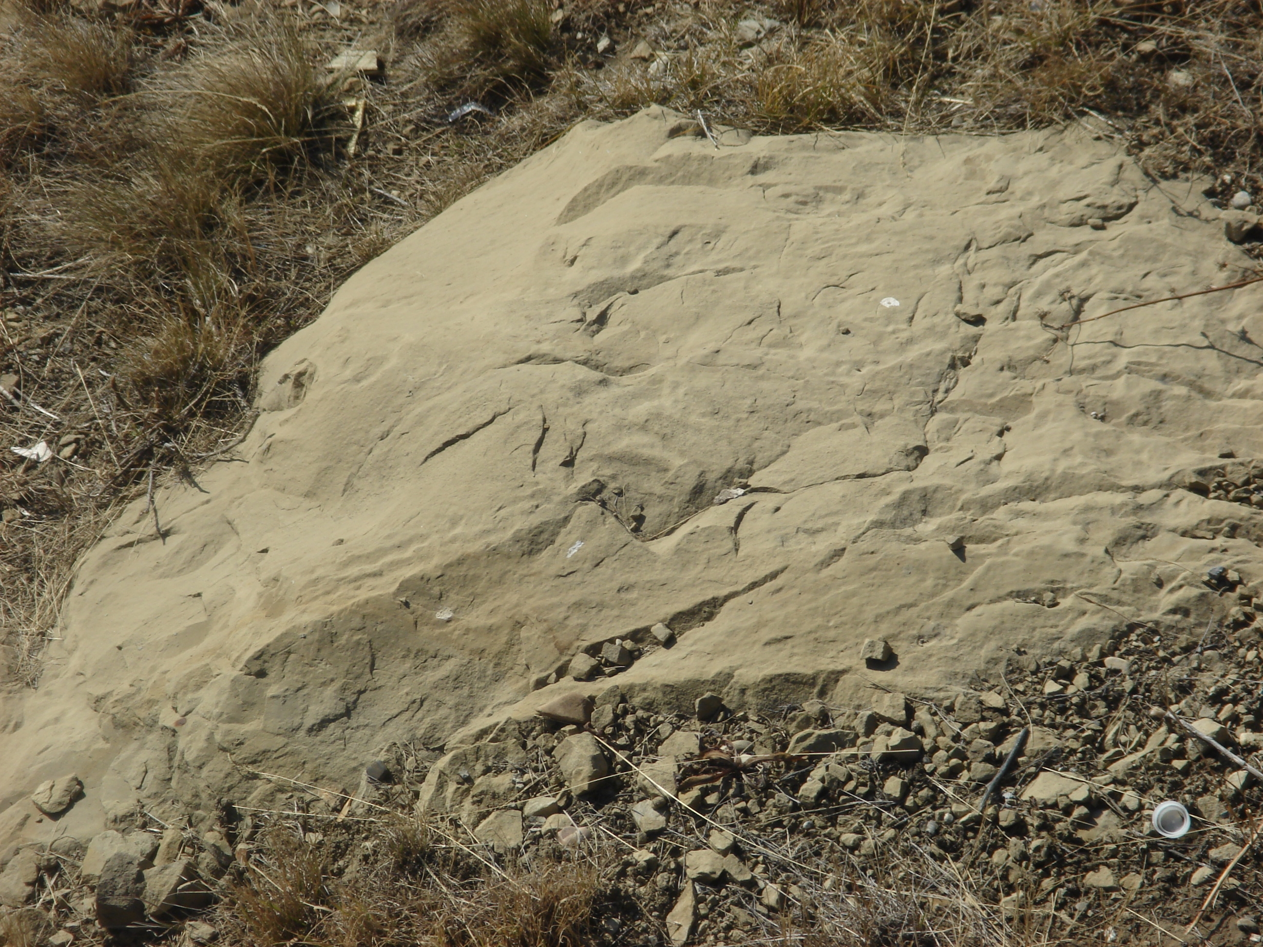 Peskapoo Sandstone outcrop in Signal Hill, Calgary, Alberta, Canada